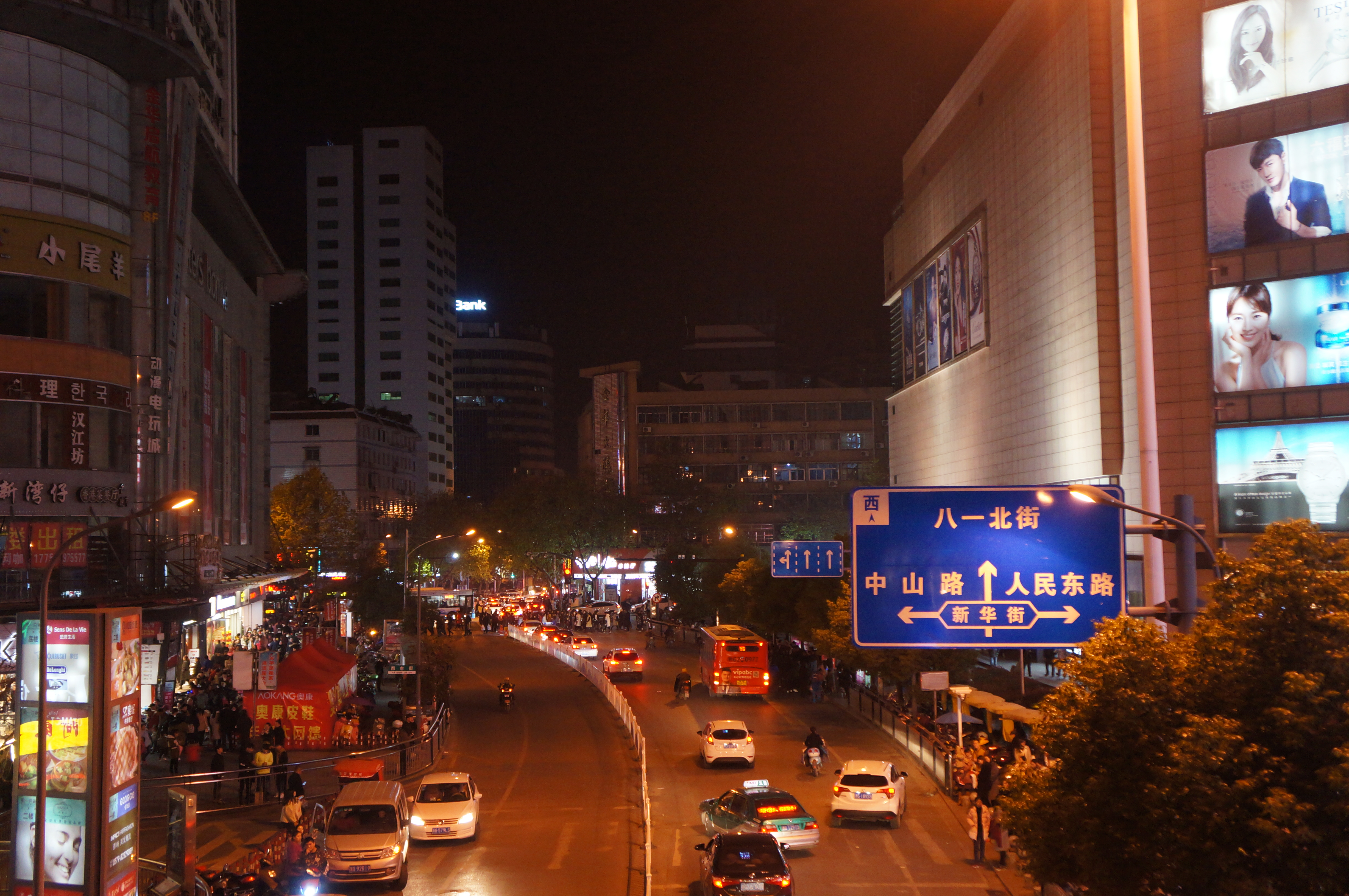 201612 Lanximen